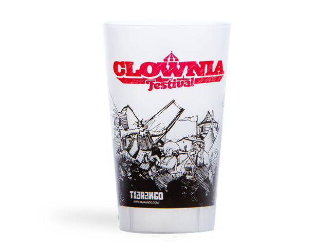 Ecofestes reusable cup